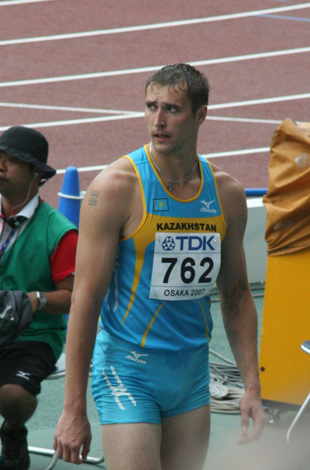 World Athletics Championships 2007 in Osaka - Decathlete Dmitriy Karpov from Kazakhstan during the long jump part of the decathlon